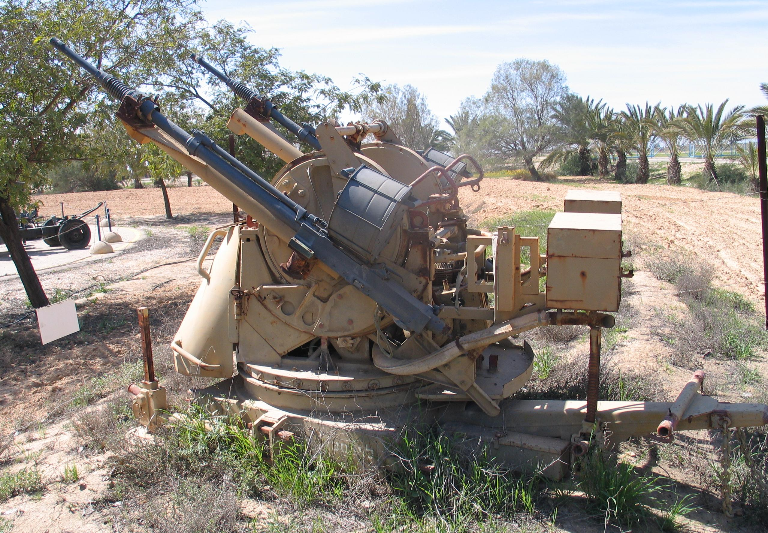 TCM-20 2x20mm AA autocannon at Muzeyon Heyl ha-Avir, Hatzerim, Israel.